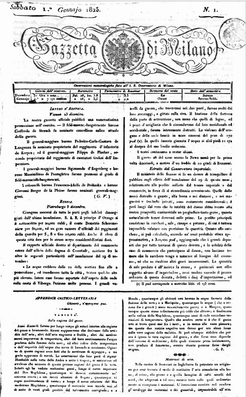 Front page of the Gazzetta di Milano, edition of 1 January 1825